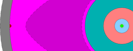 Schematic cross-section of the first atomic bomb, which was tested at the Trinity site in the framework of the Manhattan Project, and was nicknamed the gadget made from Nuclear Weapon Archive's description about 630 pixels/metre thickness of casing not given (It may not have been very thick. If I understand high explosive--which I don't claim to do--a casing rupture would not have mattered after a few microseconds. And notice, for instance, that half the bolts may have been left out of Gadget's one flange.[1]) the lens based on 78:47 detonation-speed ratio ([2] pg6) and 10 cm between EBW and Baratol thickness of amplifier layer not given